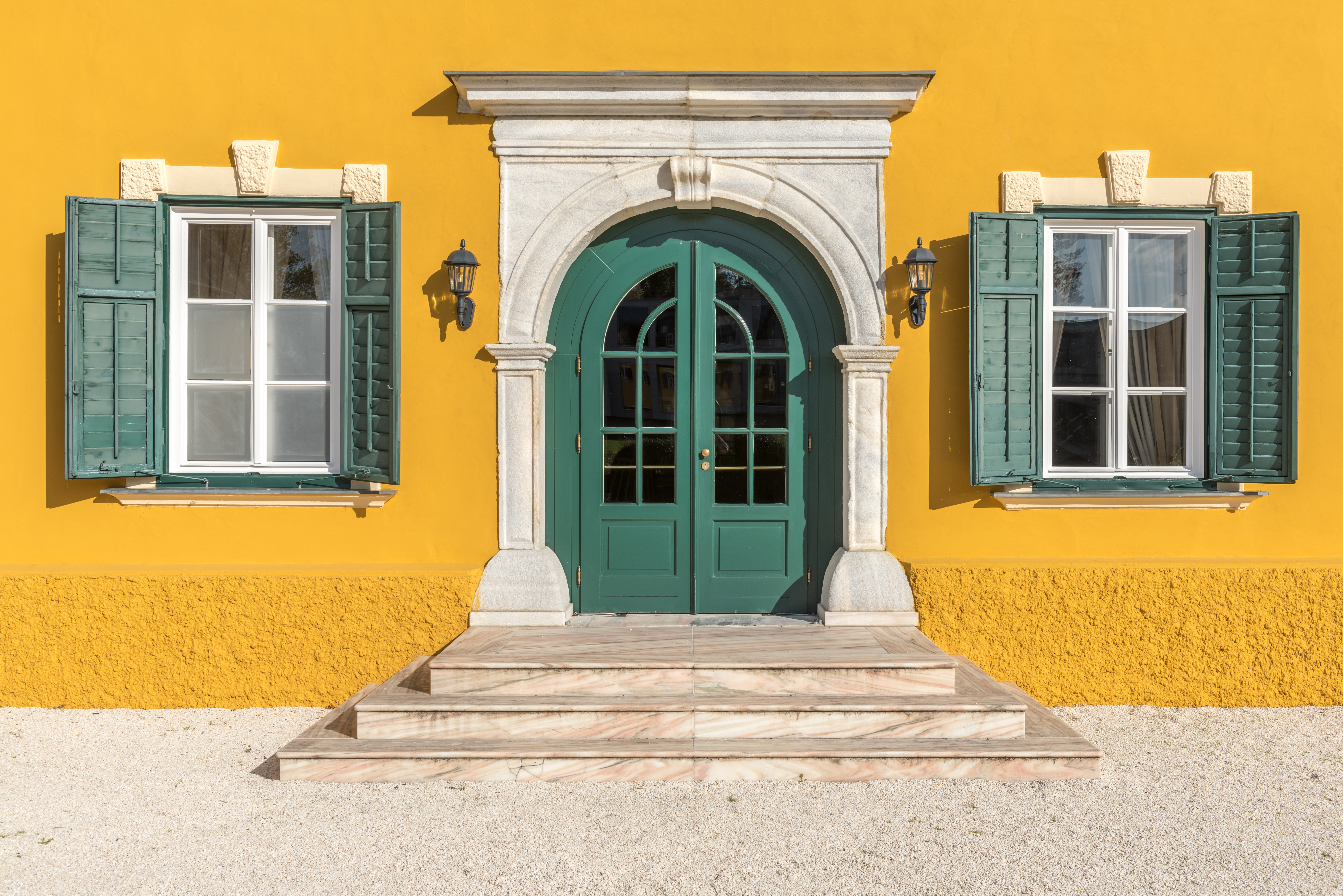 Western portal at castle hotel on Seecorso #10, market town Velden am Wörther See, district Villach Land, Carinthia, Austria, EU